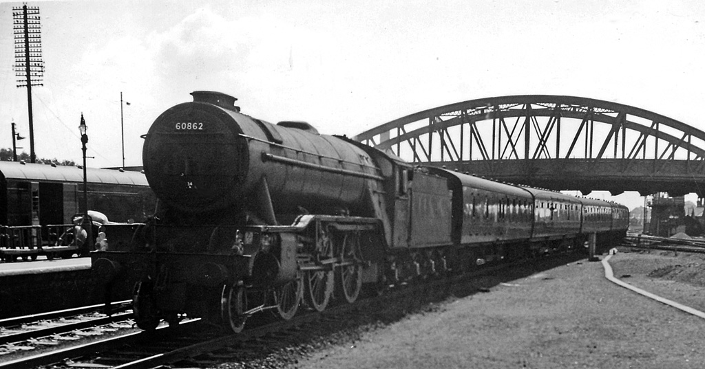 Down ECML express entering Peterborough North. View southward, towards London under Crescent Bridge; ex-Great Northern ECML. The train is the Saturday 10.30 King's Cross - Scarborough/Hull express, headed by Gresley V2 2-6-2 No. 60862 (one the few fitted with a double blast-pipe and chimney).